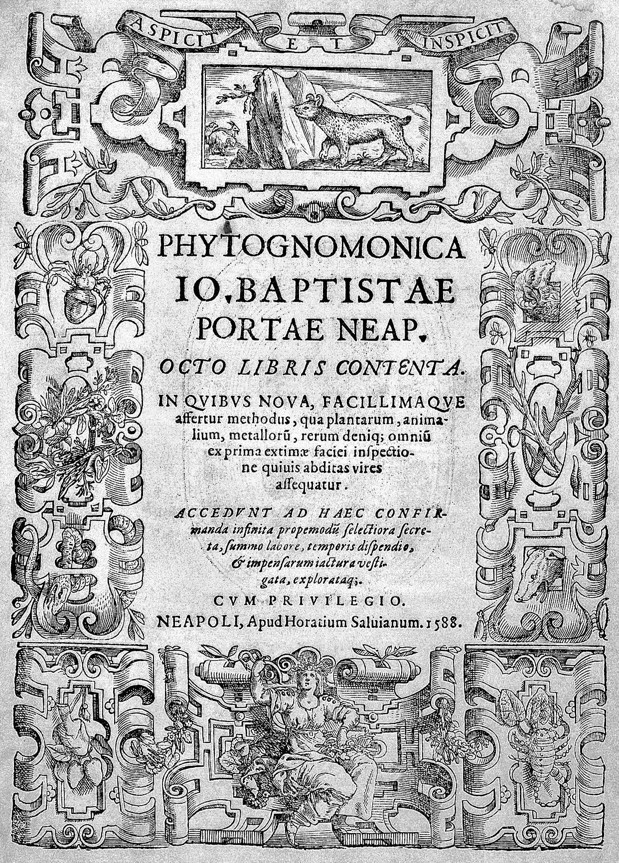 Title page Rare Books Keywords: Materia Medica